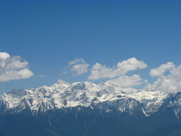 View of the Pir Panjal Mountain Range in India from Khajjiar